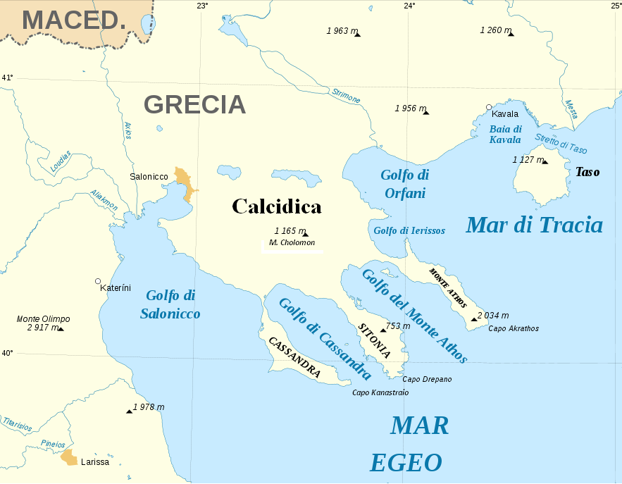 Map in Italian of the Calcidica Aegean Sea, Mediterranean Sea. UTM projection; WGS84 datum Approximate scale of sea and lakes shores : 1:744,000 (accuracy : about 190 m)